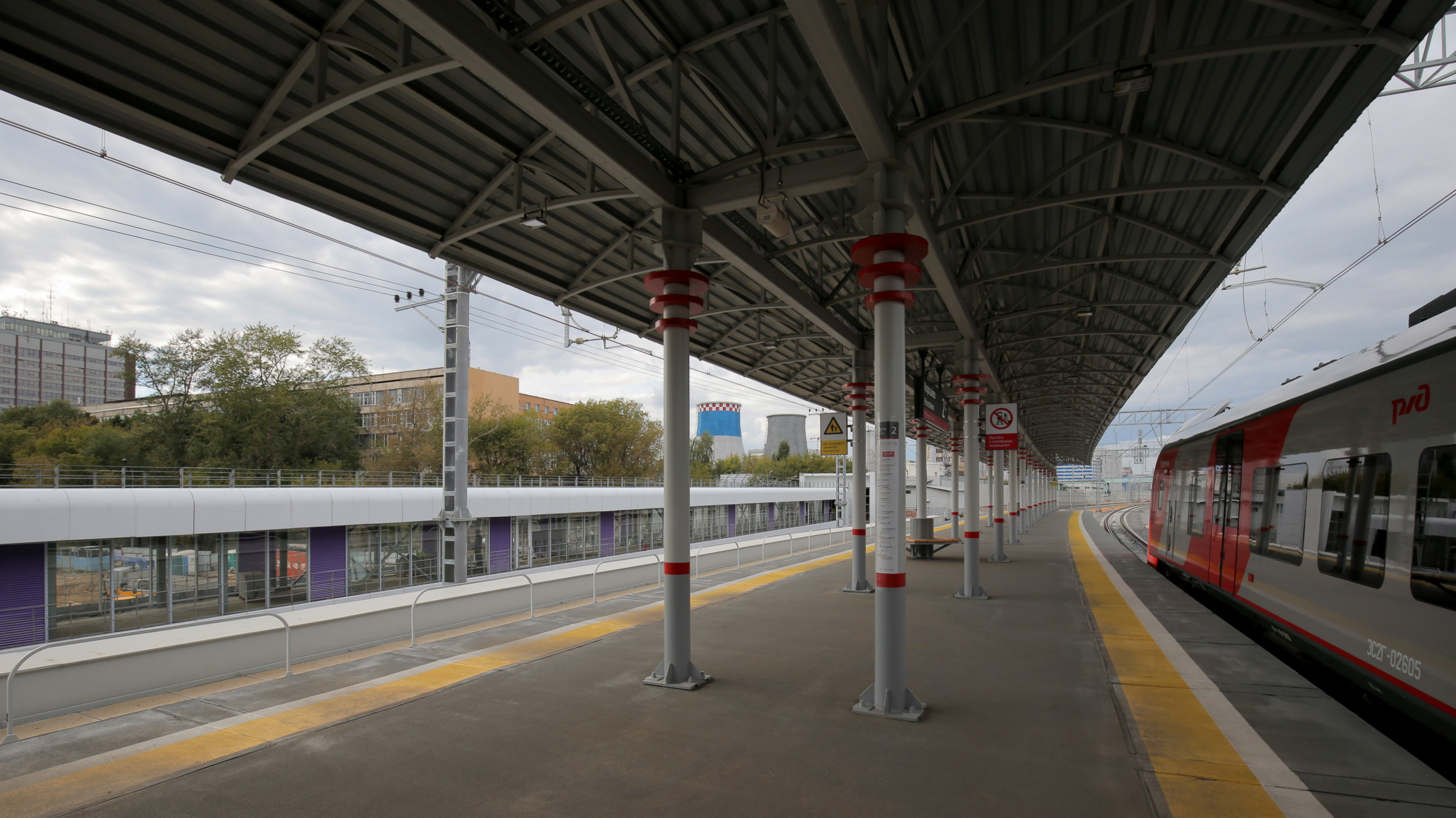 "Horoshevo" station of Moscow Ring Railway